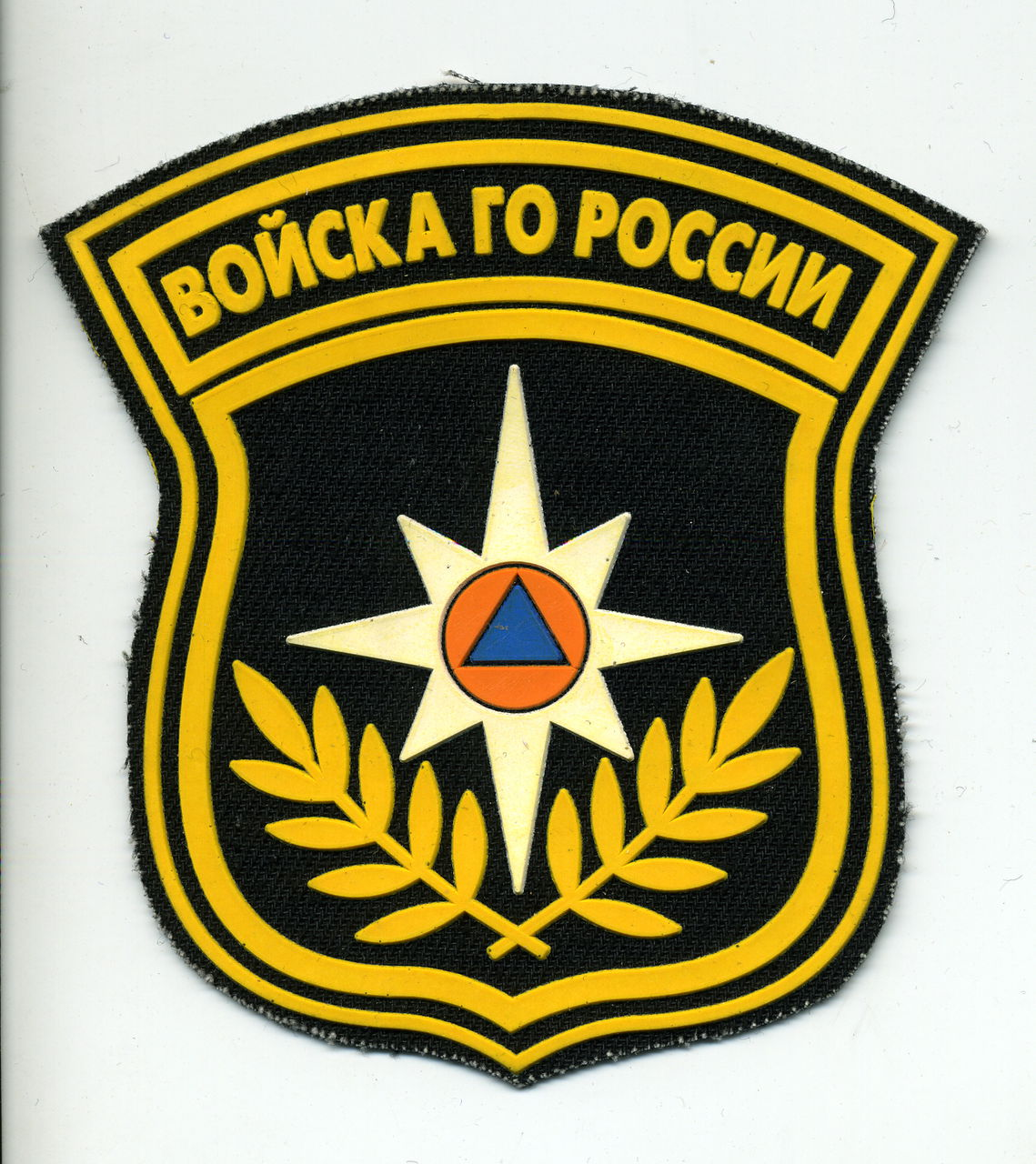 Нарукавная нашивка войск ГО России 1991 - 2003 г.г.